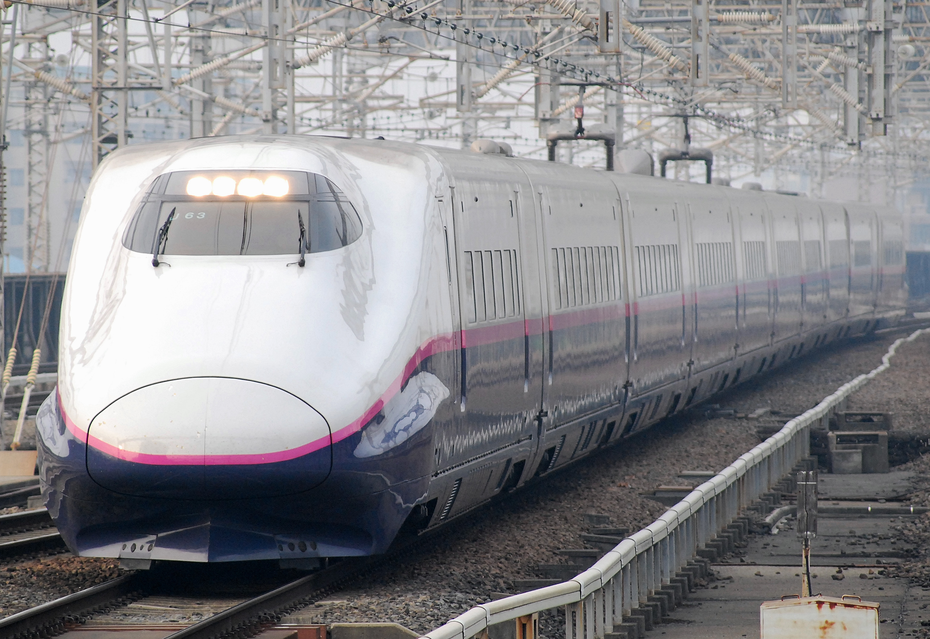 JR East E2-1000 series shinkansen set J63 approaching Omiya Station on the Tohoku Shinkansen